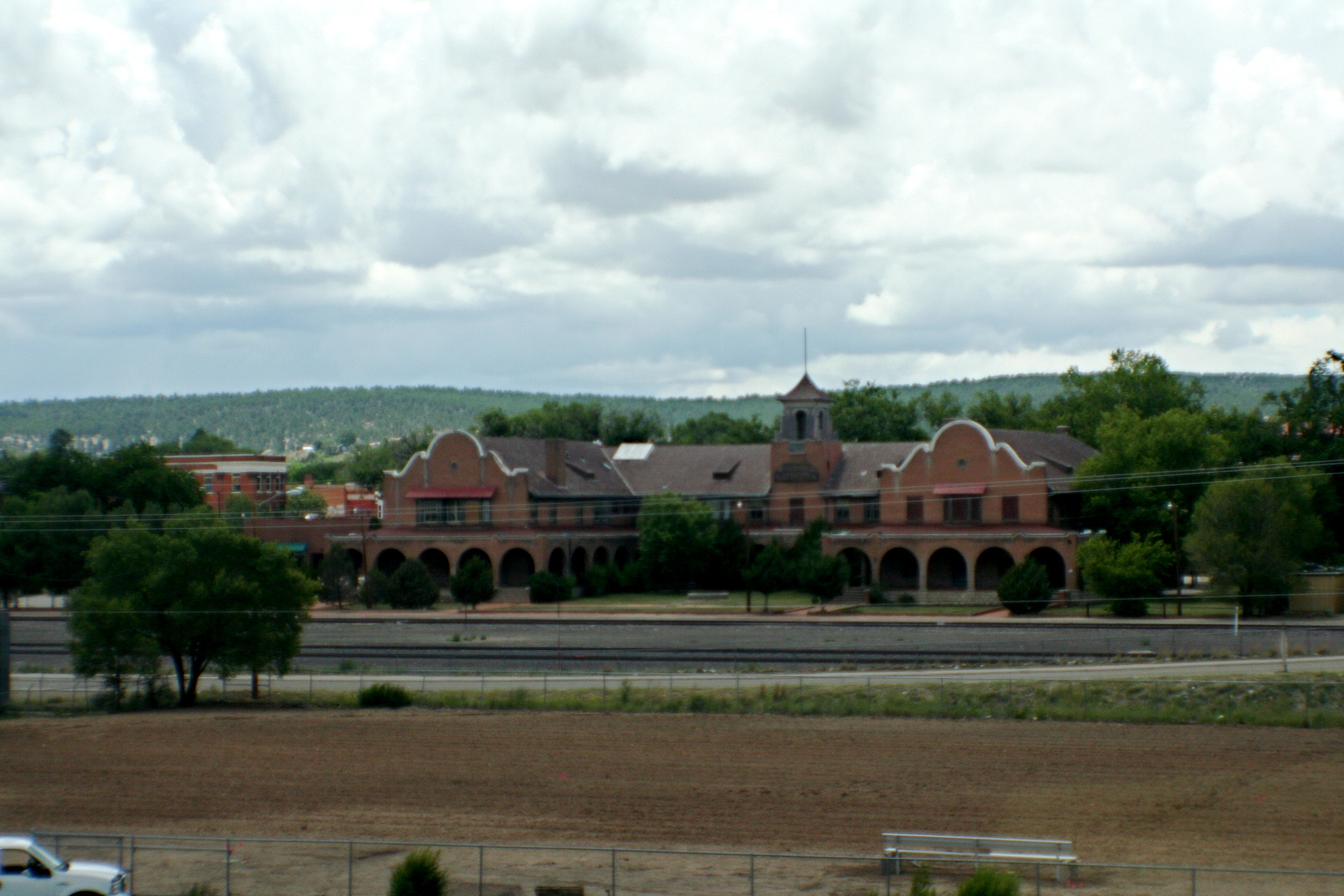 Amtrak Station in Las Vegas, New Mexico. Former "Castenada" Harvey House and Santa Fe Railway train depot.